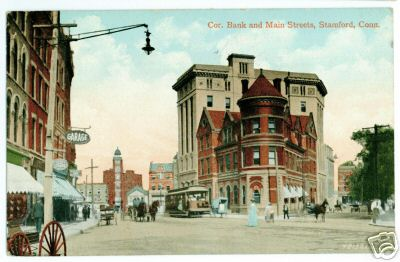 Postcard: Corner of Bank and Main Streets, Stamford, Connecticut, postmarked 1911 Description: "Caption on card reads.... Cor. Bank and Main Streets, Stamford, Conn. Description: "Card is used postally [...] Includes .01 Benjamin Franklin Stamp. Per postmark, mailed 1911 from Stamford. Published by Valentine & Sons."